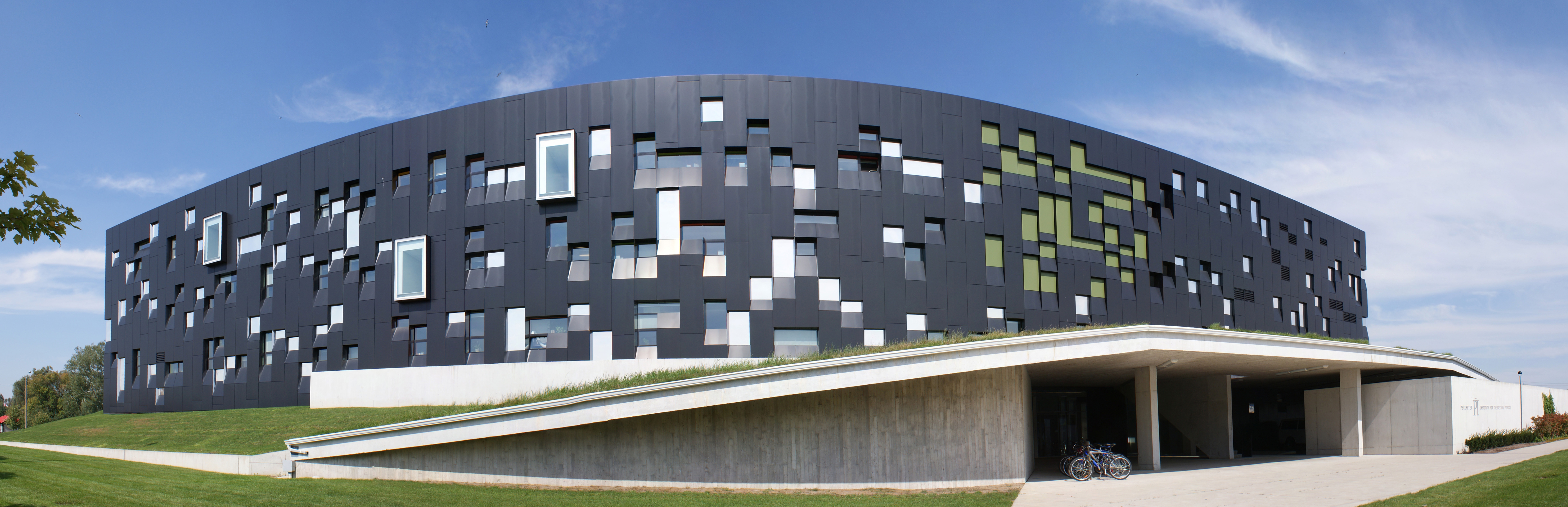 Panoramic Image of the Perimeter Institute in Waterloo, Ontario. This is made up of 7 images taken at: 18mm, f10, 1/160sec, ISO-100.